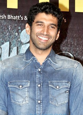 Aditya Roy Kapur at AASHIQUI 2's success bash at Escobar